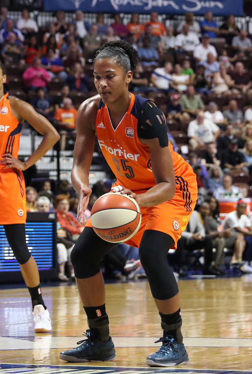 Alyssa Thomas takes a foul shot during a 2017 WNBA regular season game